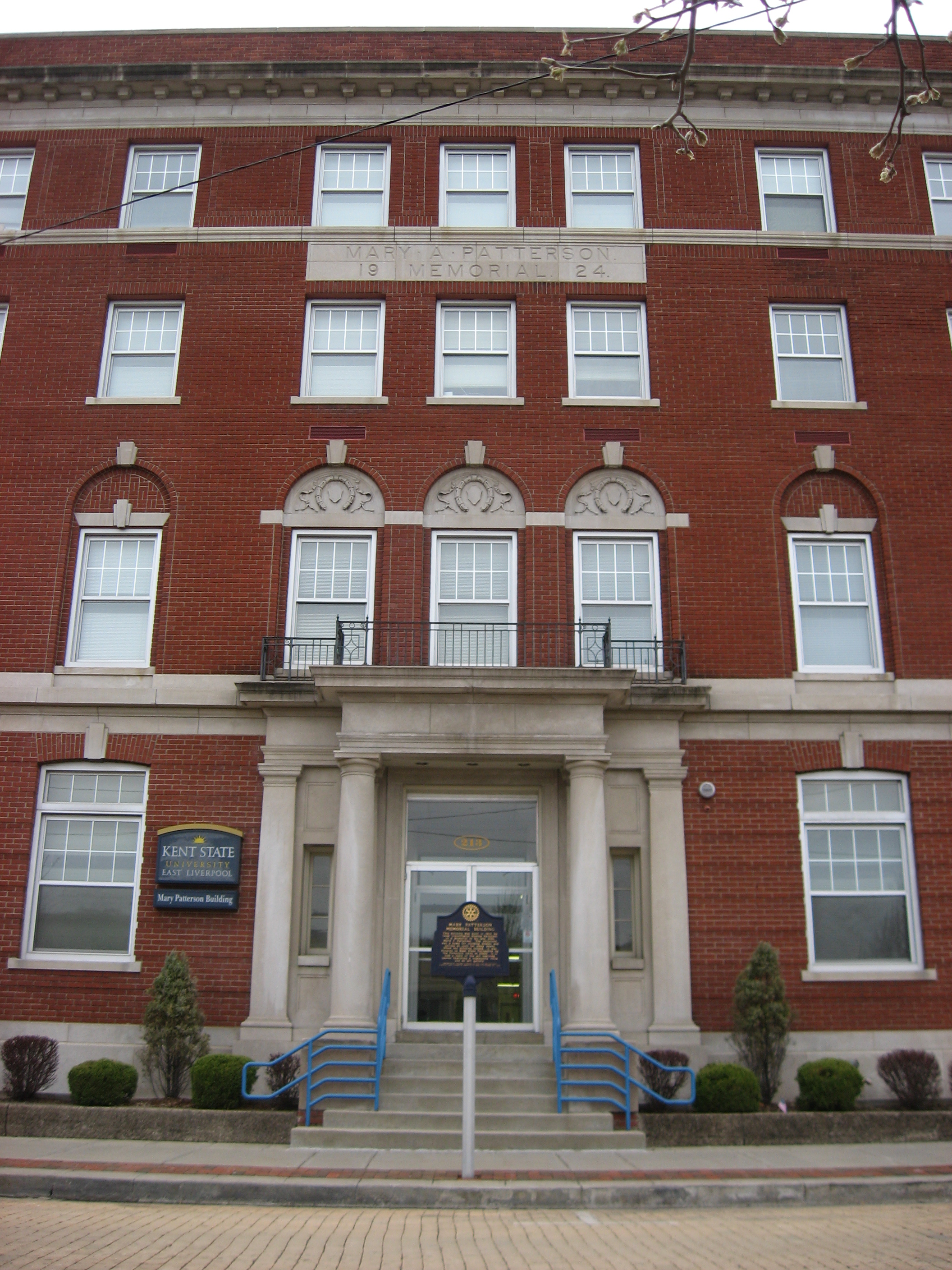 Entrance to the Mary A. Patterson Memorial, located at 213 East Fourth Avenue in downtown East Liverpool, Ohio, United States. Built in 1924, the building is listed on the National Register of Historic Places.